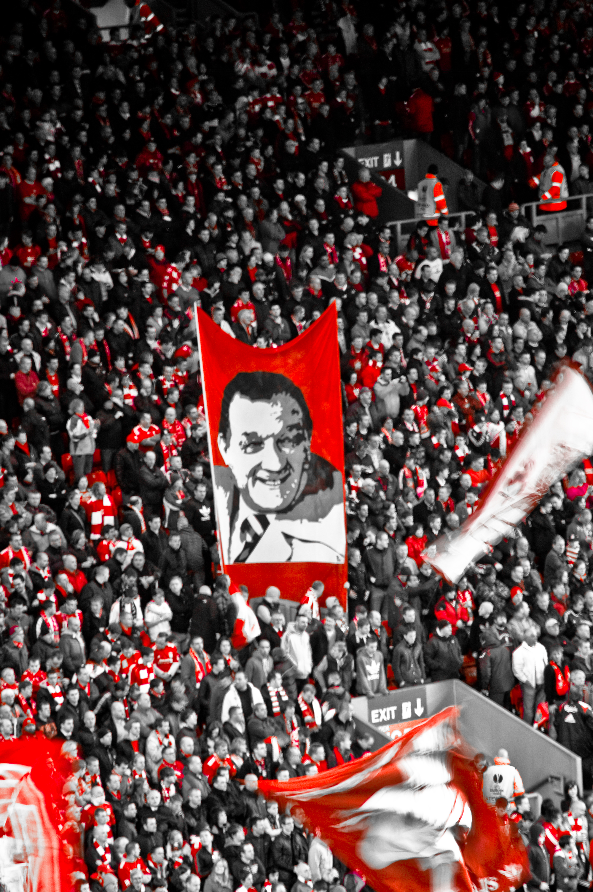 Bob Paisley's, association football coach, banner waved by Liverpool FC supporters